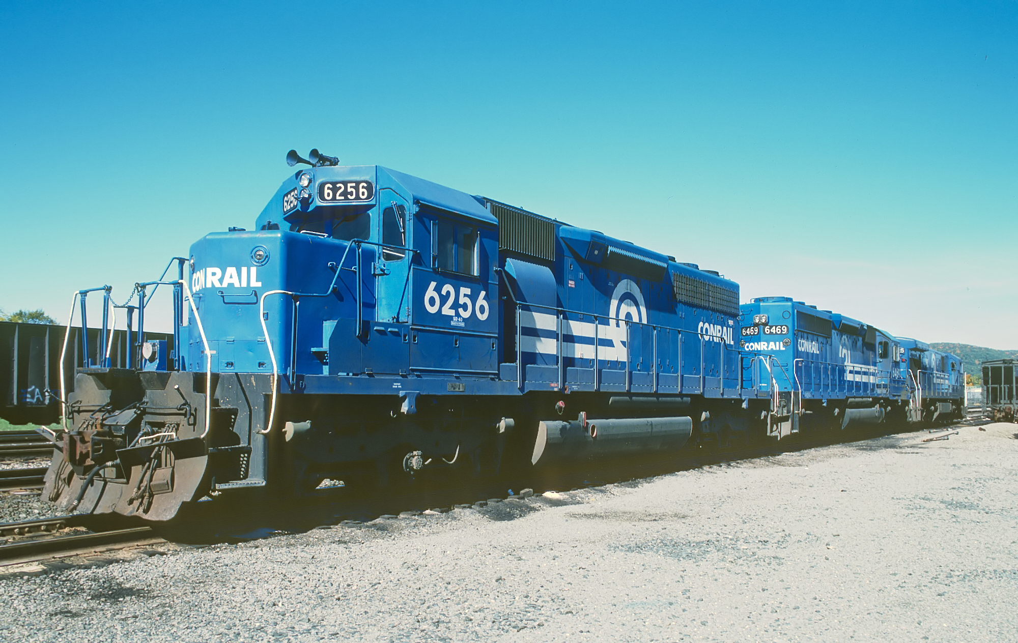 A Roger Puta photograph